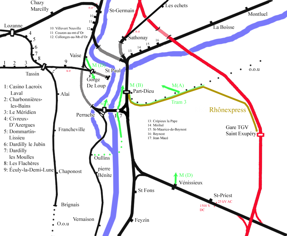 Railway map of the railways around Lyon